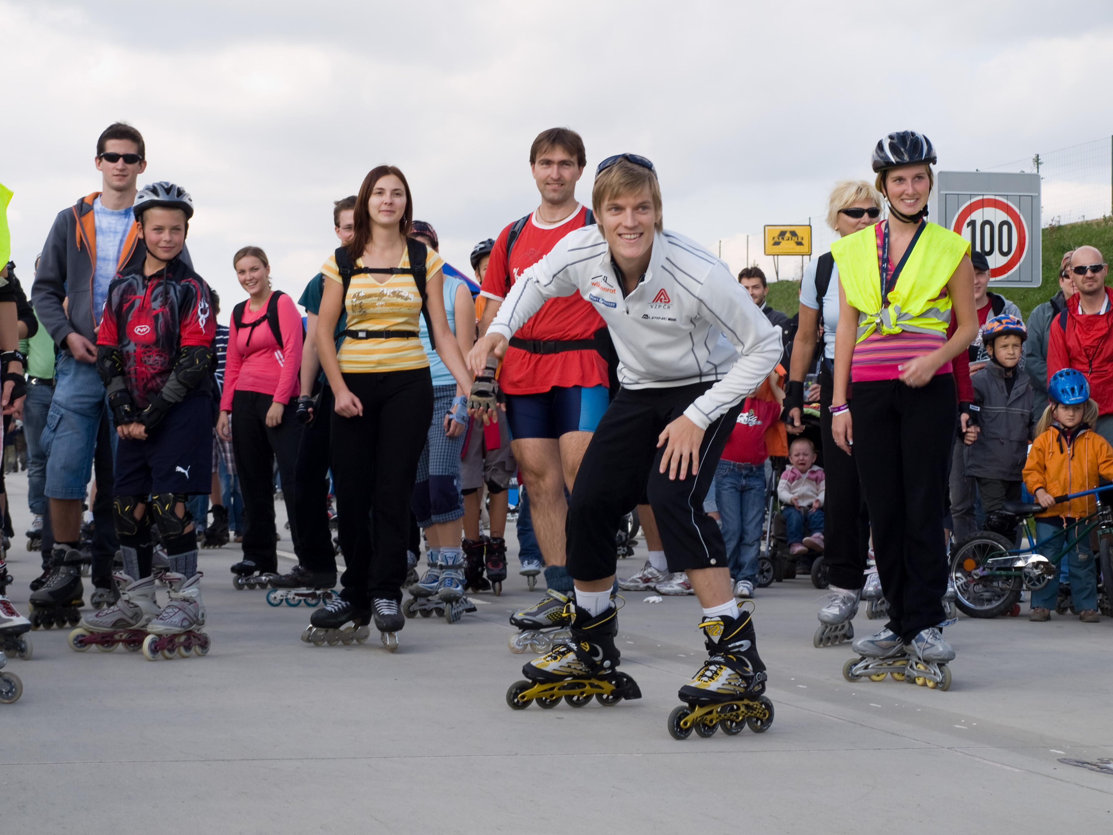 Czech figure skater Tomáš Verner at Open doors day of Prague expressway